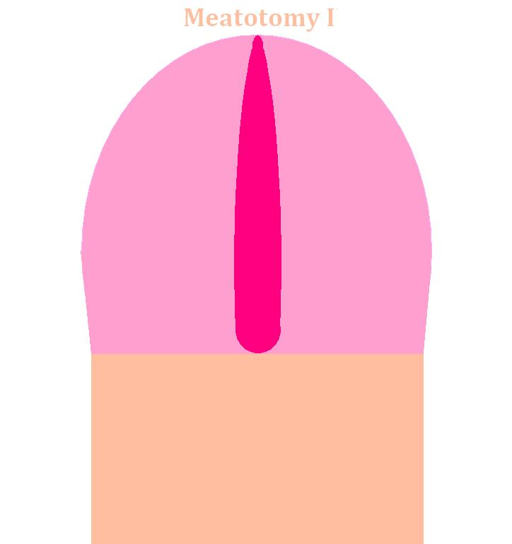 Enlarged urethral meatus